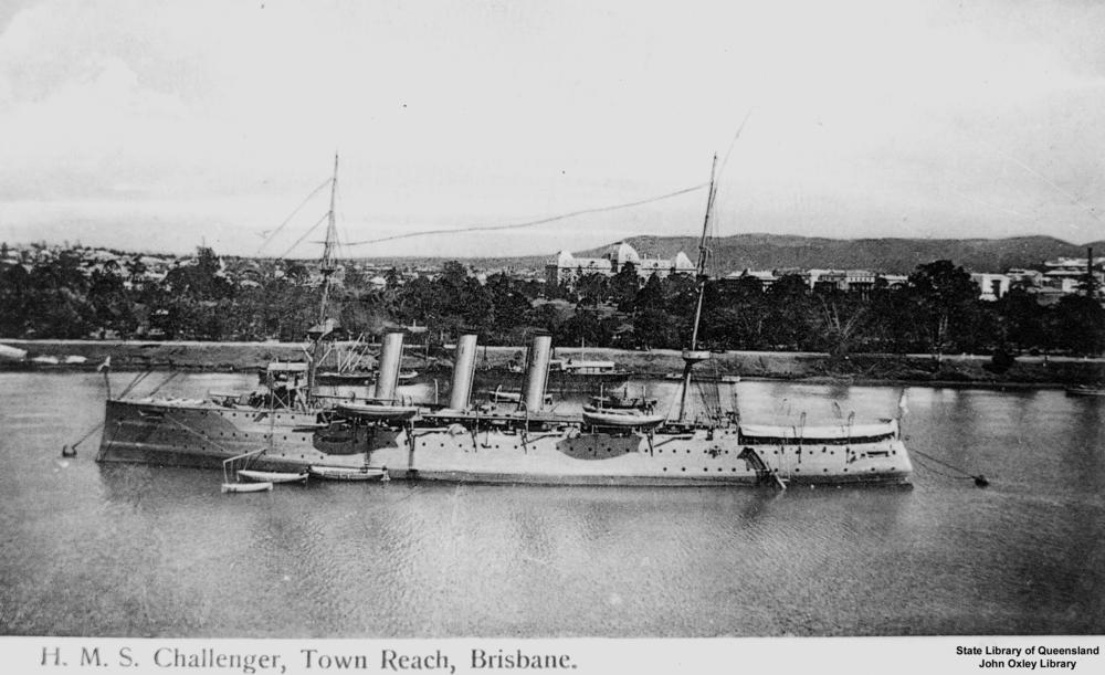 Challenger (ship) Caption: H.M.S. Challenger, Town Reach, Brisbane.